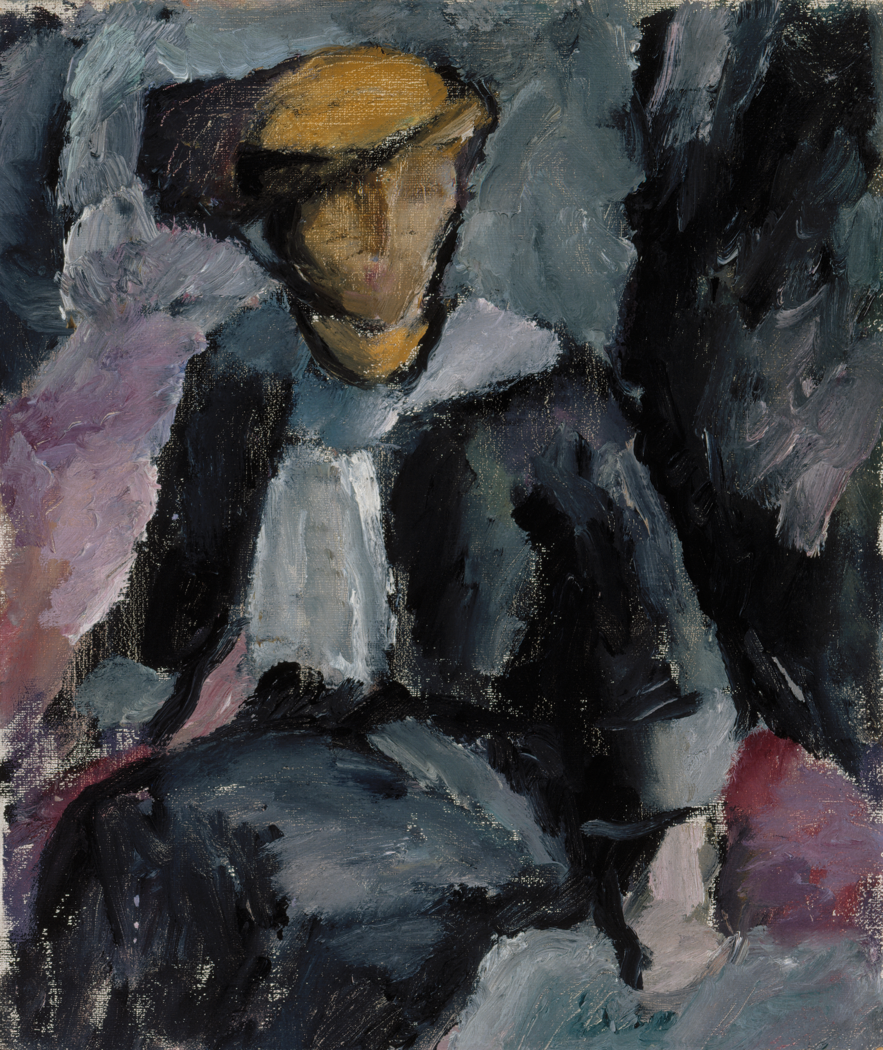 A woman sitting, the background is grayish blue and purple.